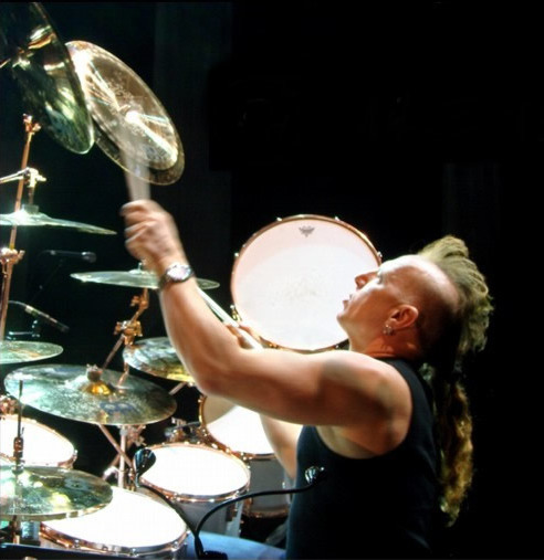 Mike Terrana - American drummer, image from the official website (made by ElfPowerWeb, webmaster)